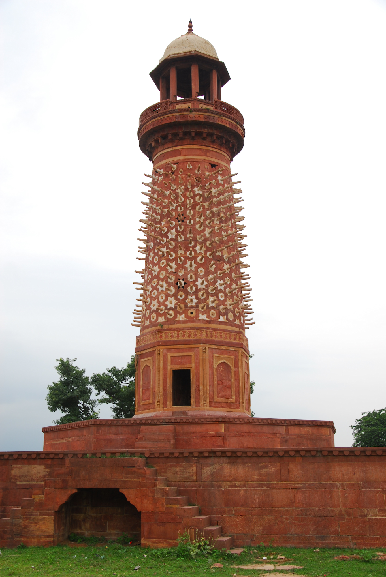 Hiran Minar